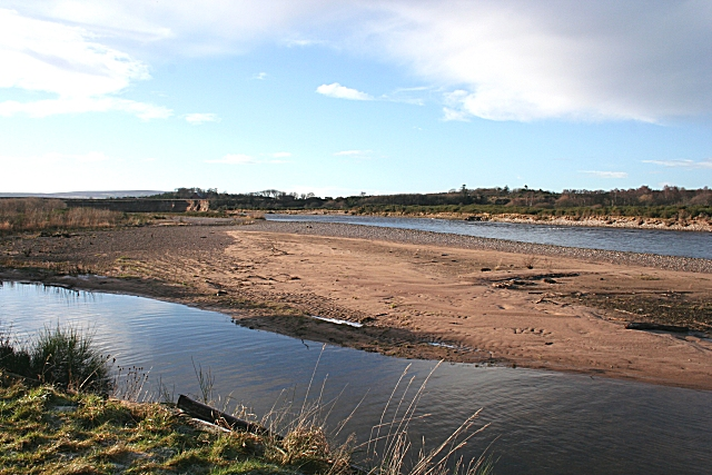 Sandbank in River Spey Looking upstream from the fishing huts, the extensive sandbank beyond the foreground backwater, covered by the river when the river level is high, was high and dry today.